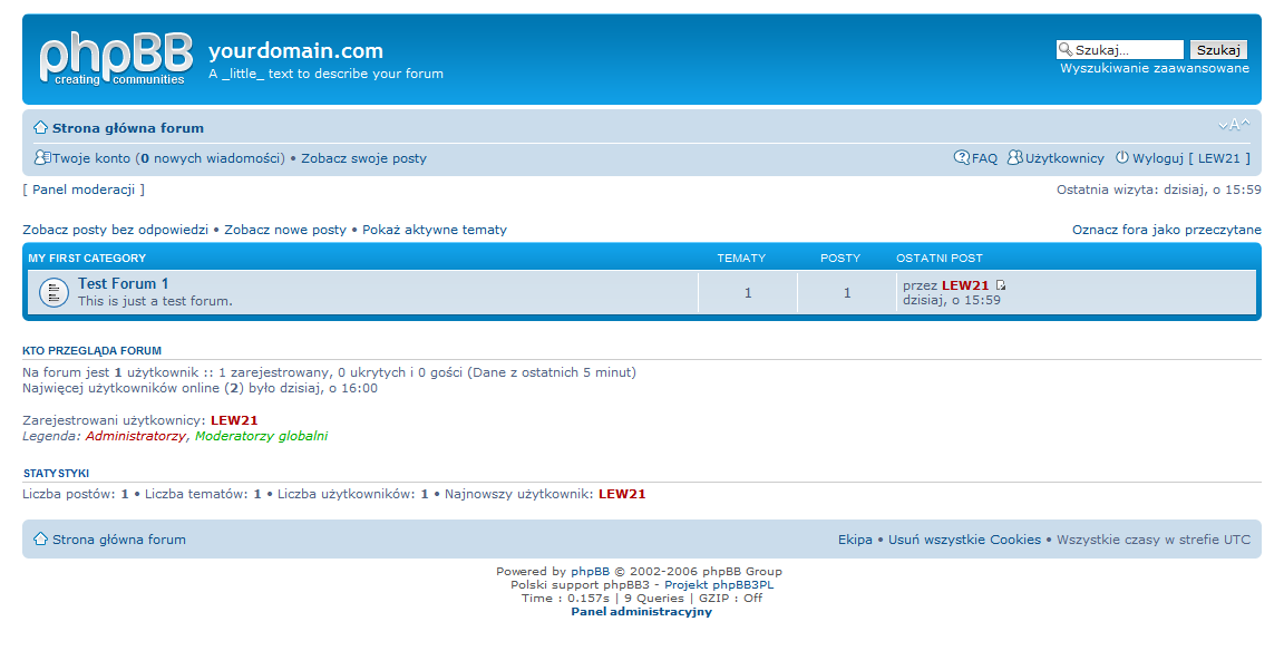 Screenshot of phpBB 3.0.B6-dev with Polish language pack and prosilver style